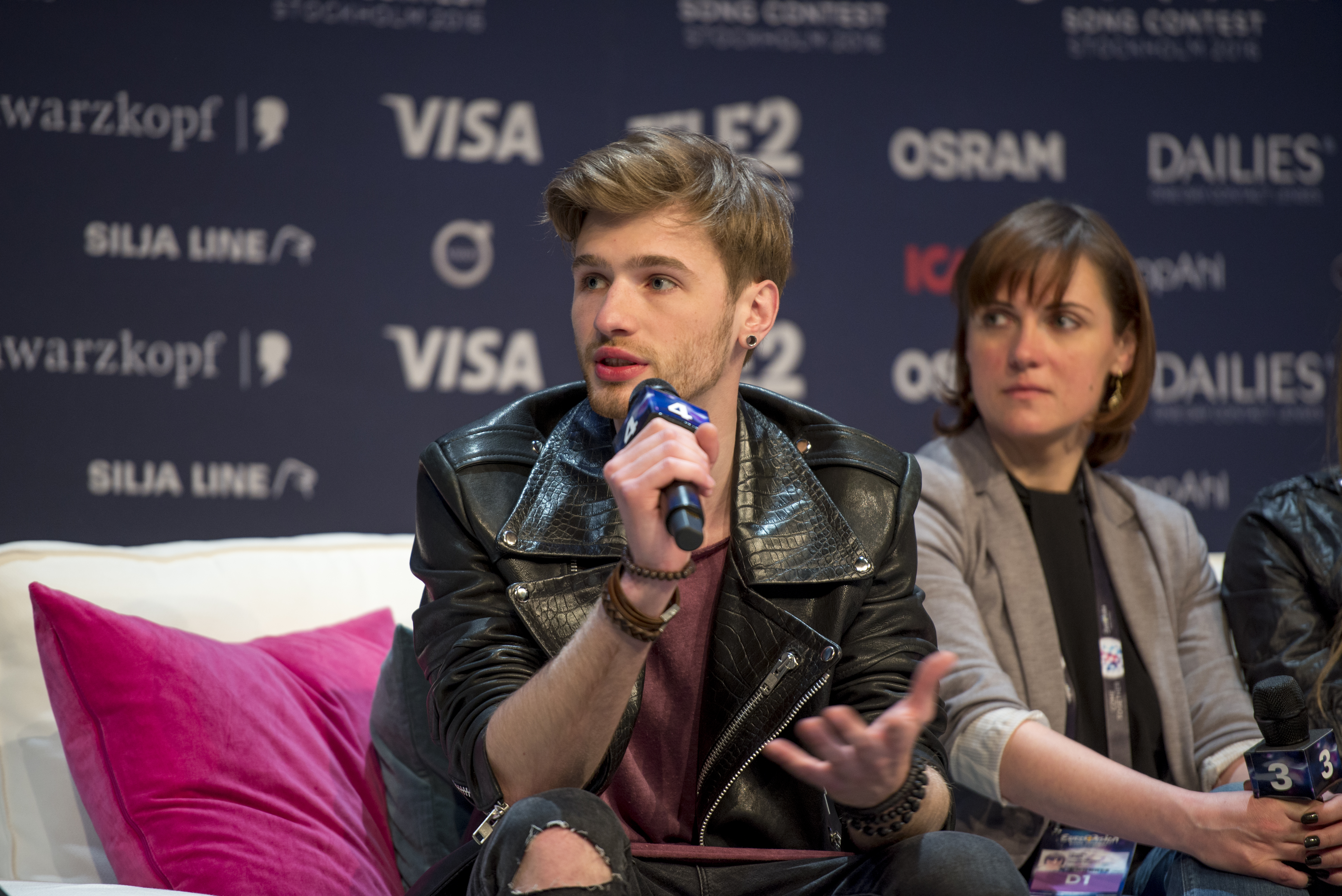 Justs at a Meet & Greet during the Eurovision Song Contest 2016 in Stockholm. (Help translate this text)